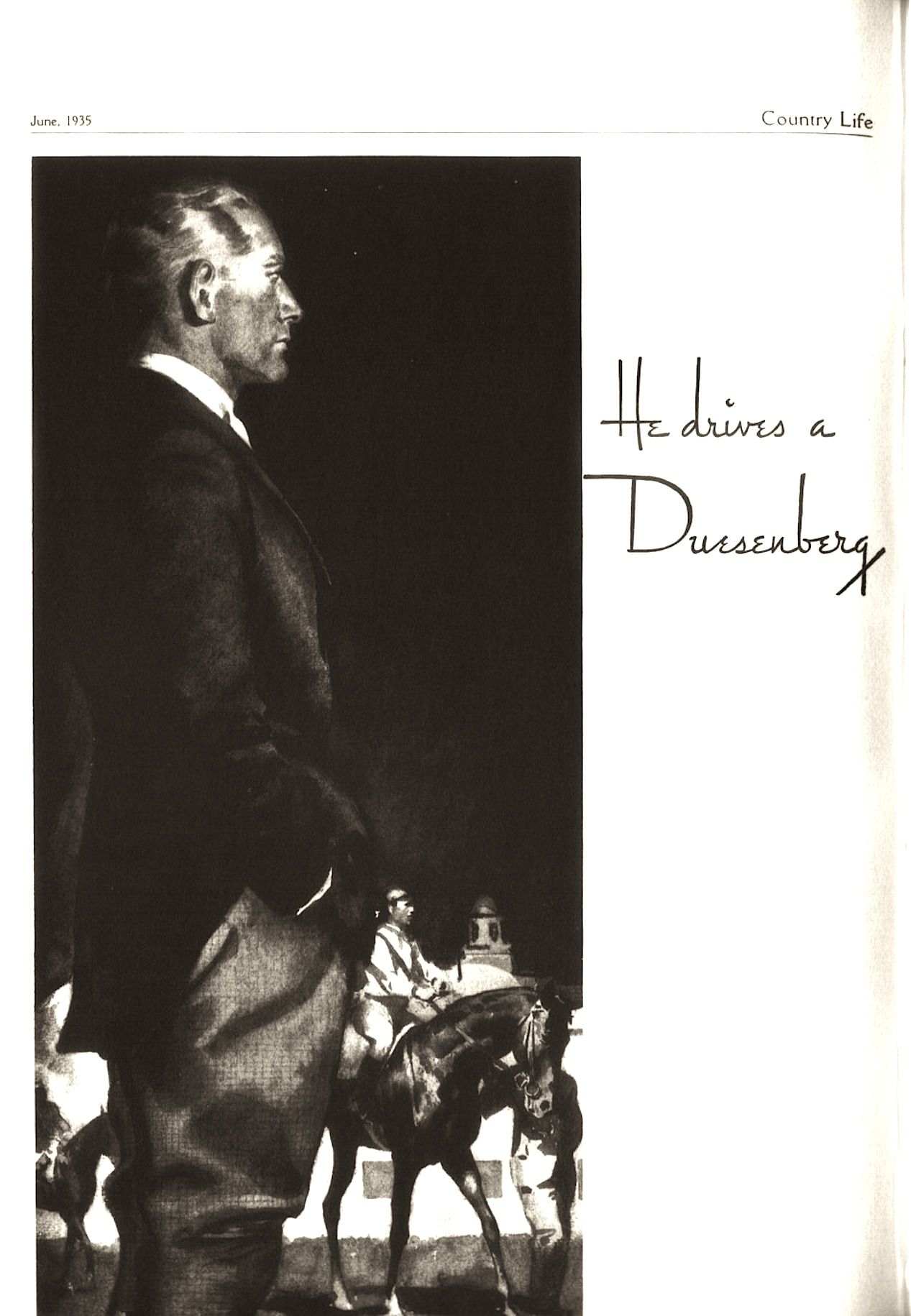 Duesenberg J advertisement published in the magazine Country Life in 1935.